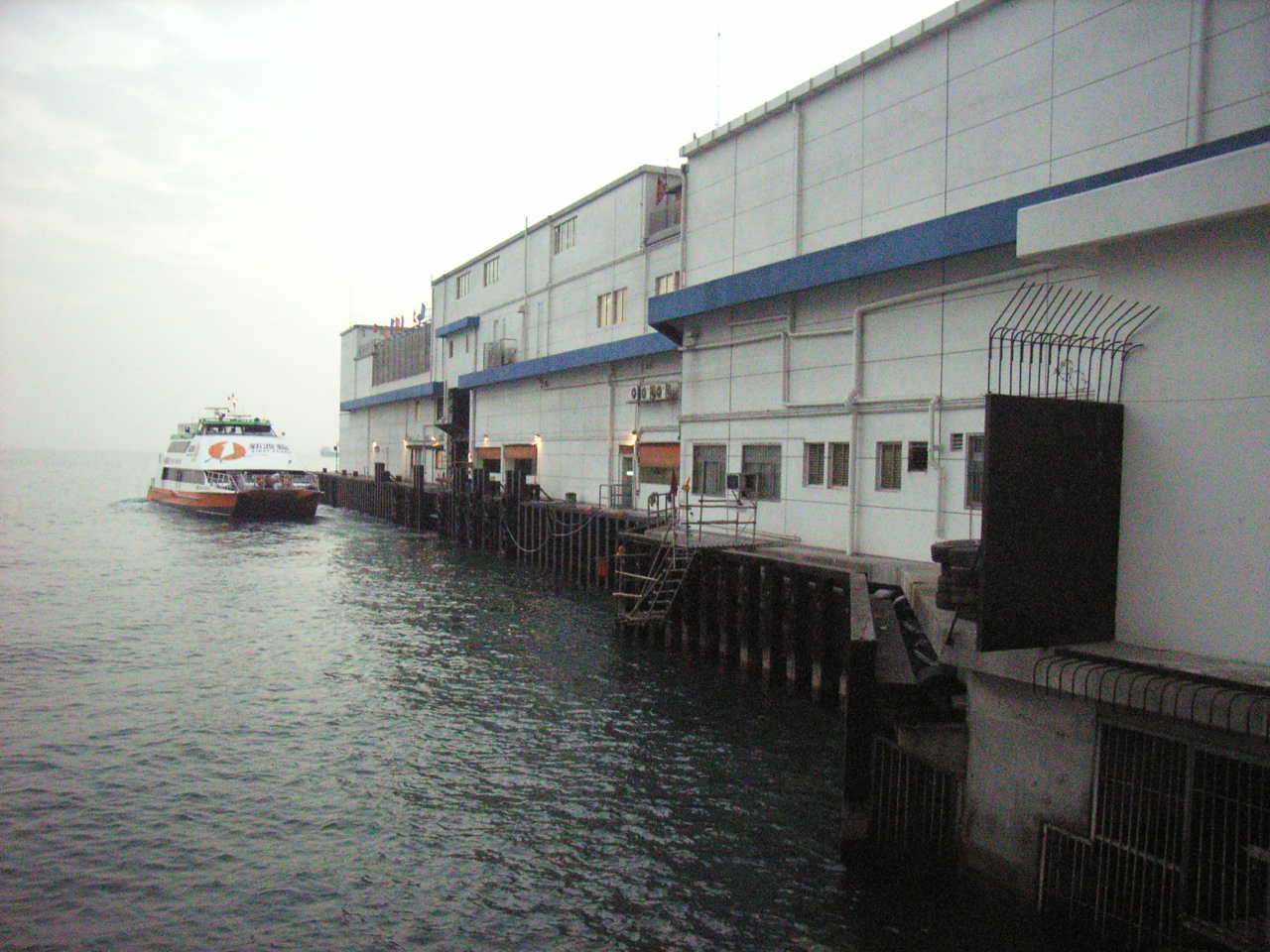 香港zh:屯門碼頭有跨境渡輪公司，也有zh:屯門至zh:東涌的短線客輪服務。 後者票價HK$15港元一位單程。 (Photo created by User:TUmuMATo)。